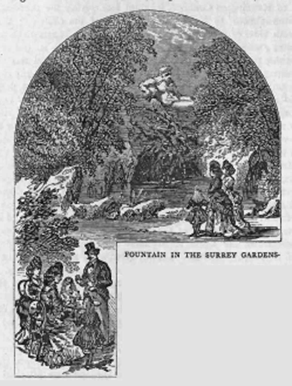 A fountain in Surrey Gardens